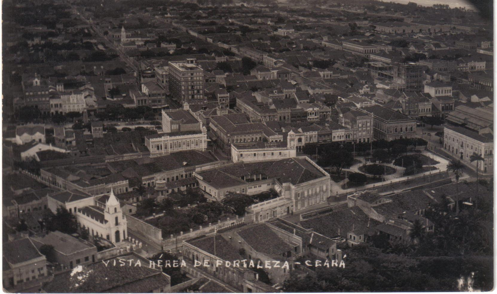 Aerial Viw of Fortaleza in 1936.